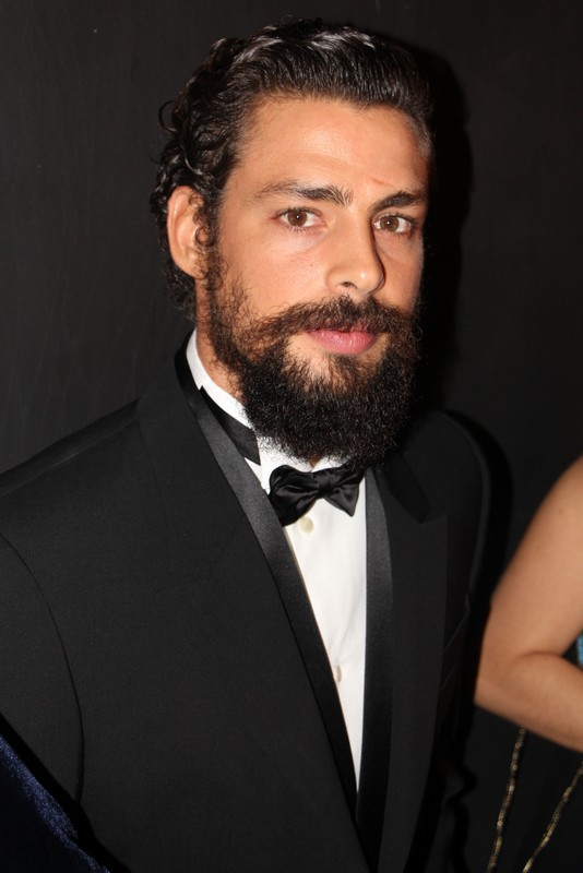 16 - Caua Reymond-002